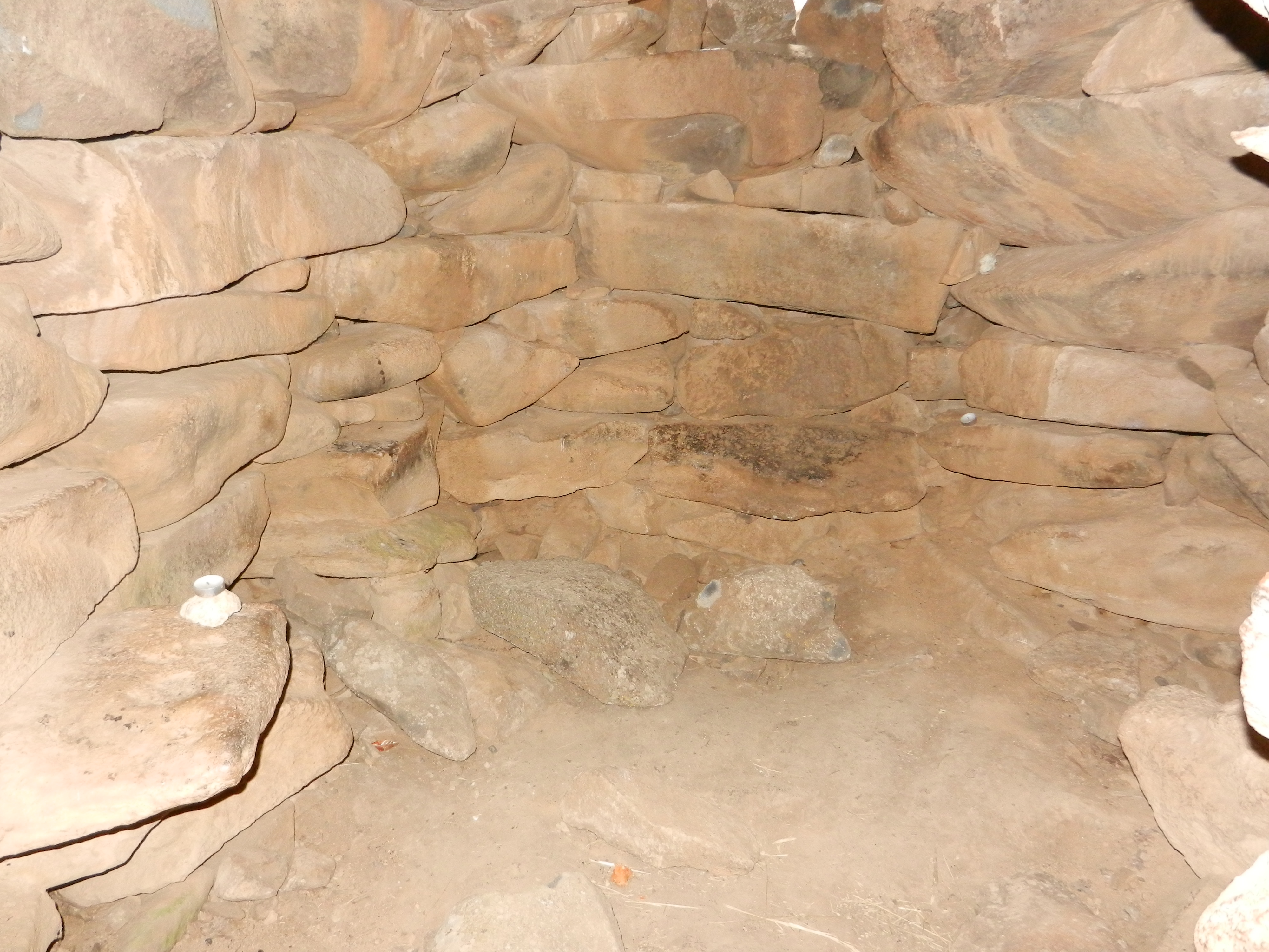 View if the burial chamber